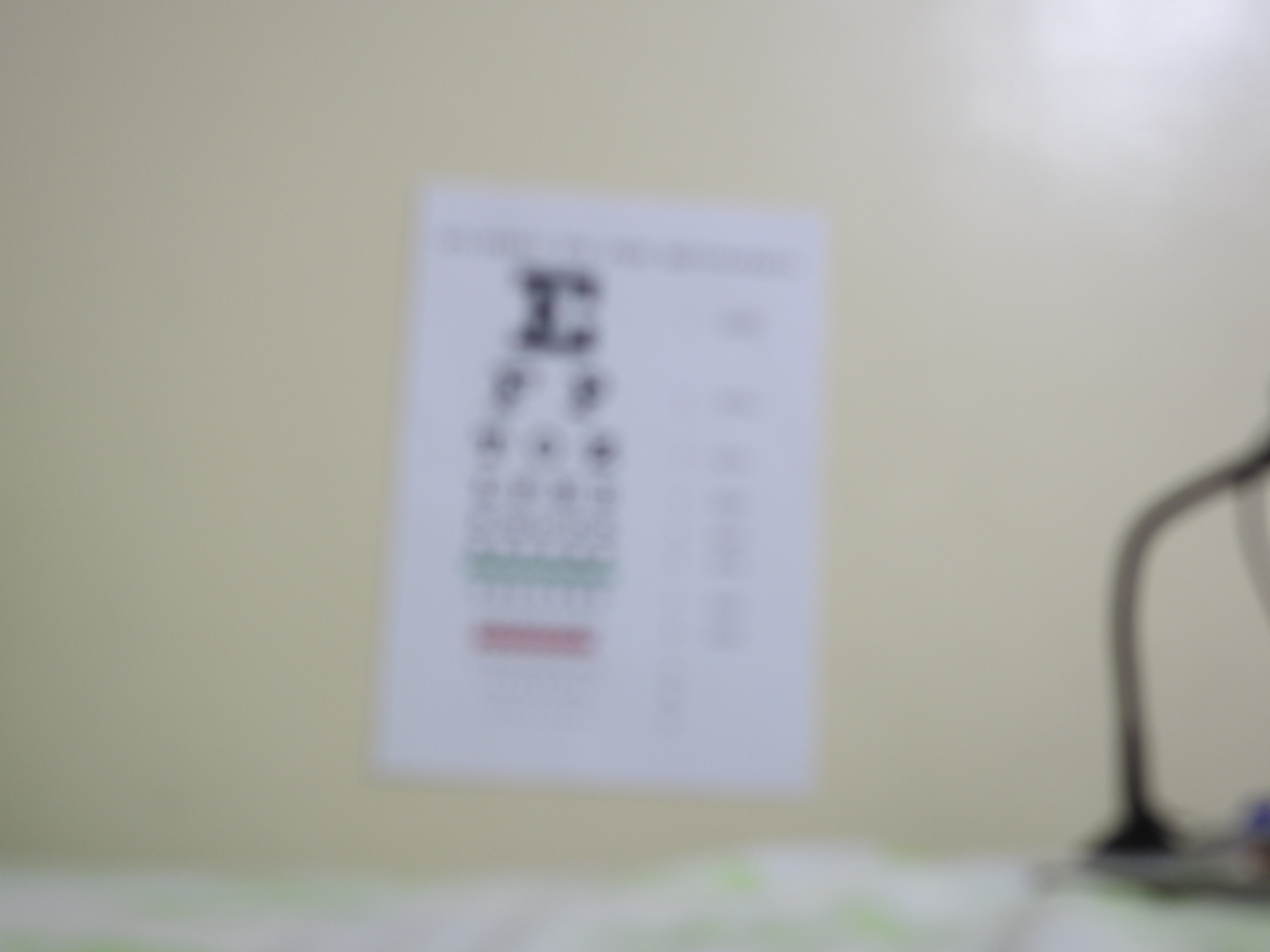 An eye chart seen with a blur. The chart is a print out of File:Snellen chart.svg, slightly edited. This file is meant to be used with File:Eye chart in focus.jpg